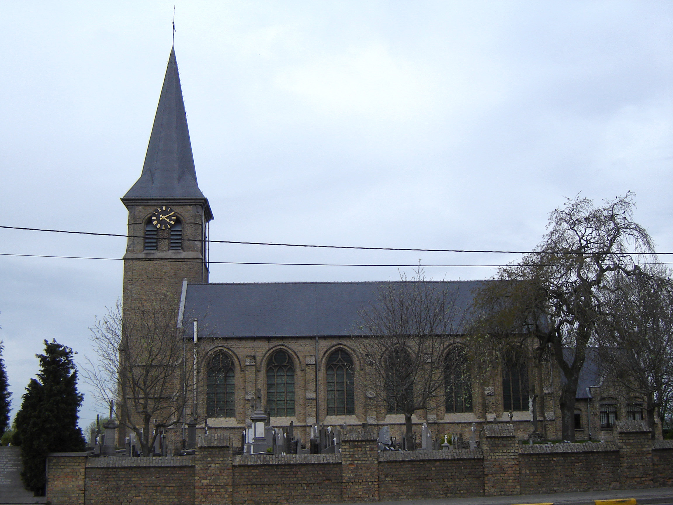 Church of Saint Barnabas in Noordschote. Noordschote, Lo-Reninge, West Flanders, Belgium